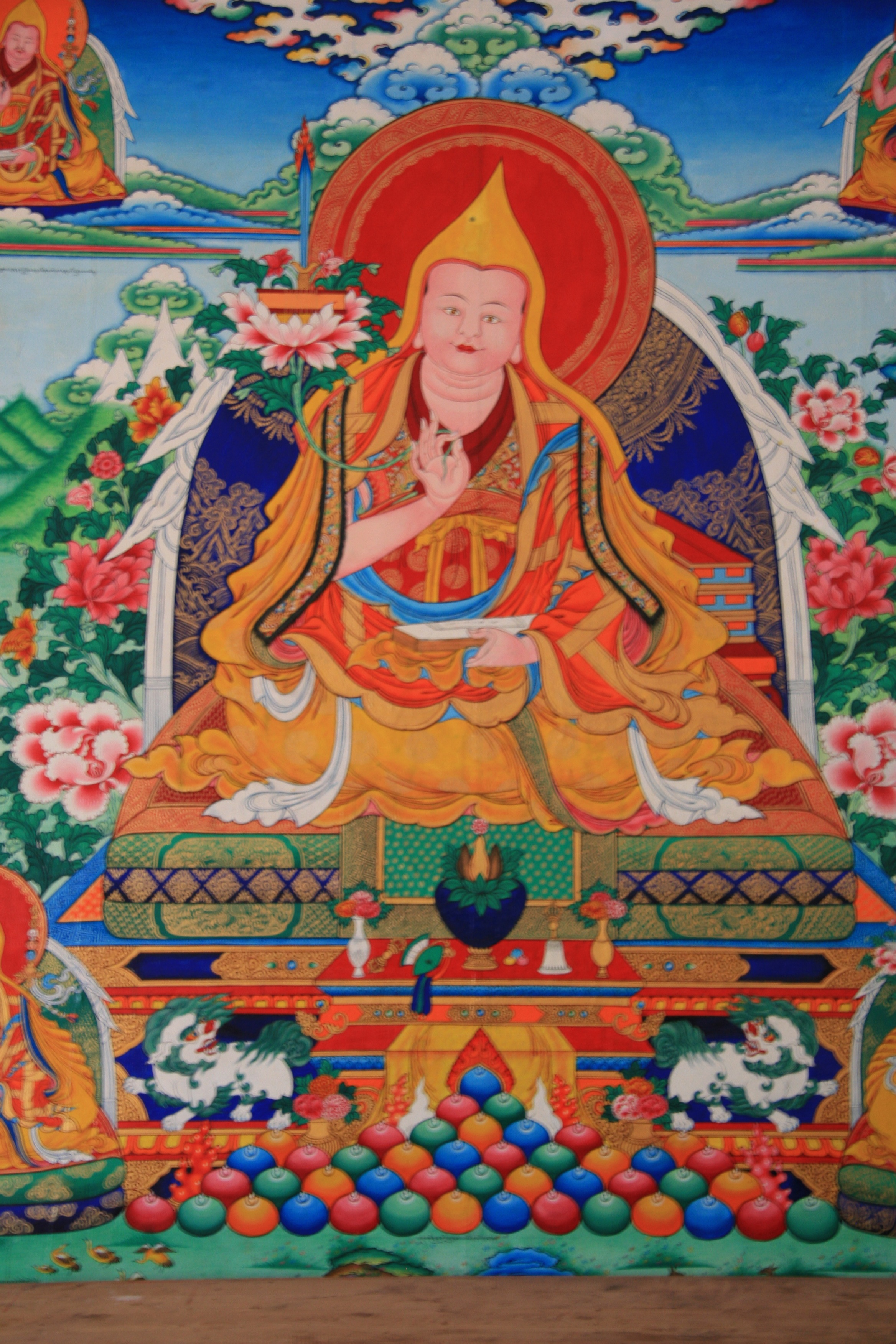 The Third Pakpa Lha, Tongwa Donden b.1567 - d.1604